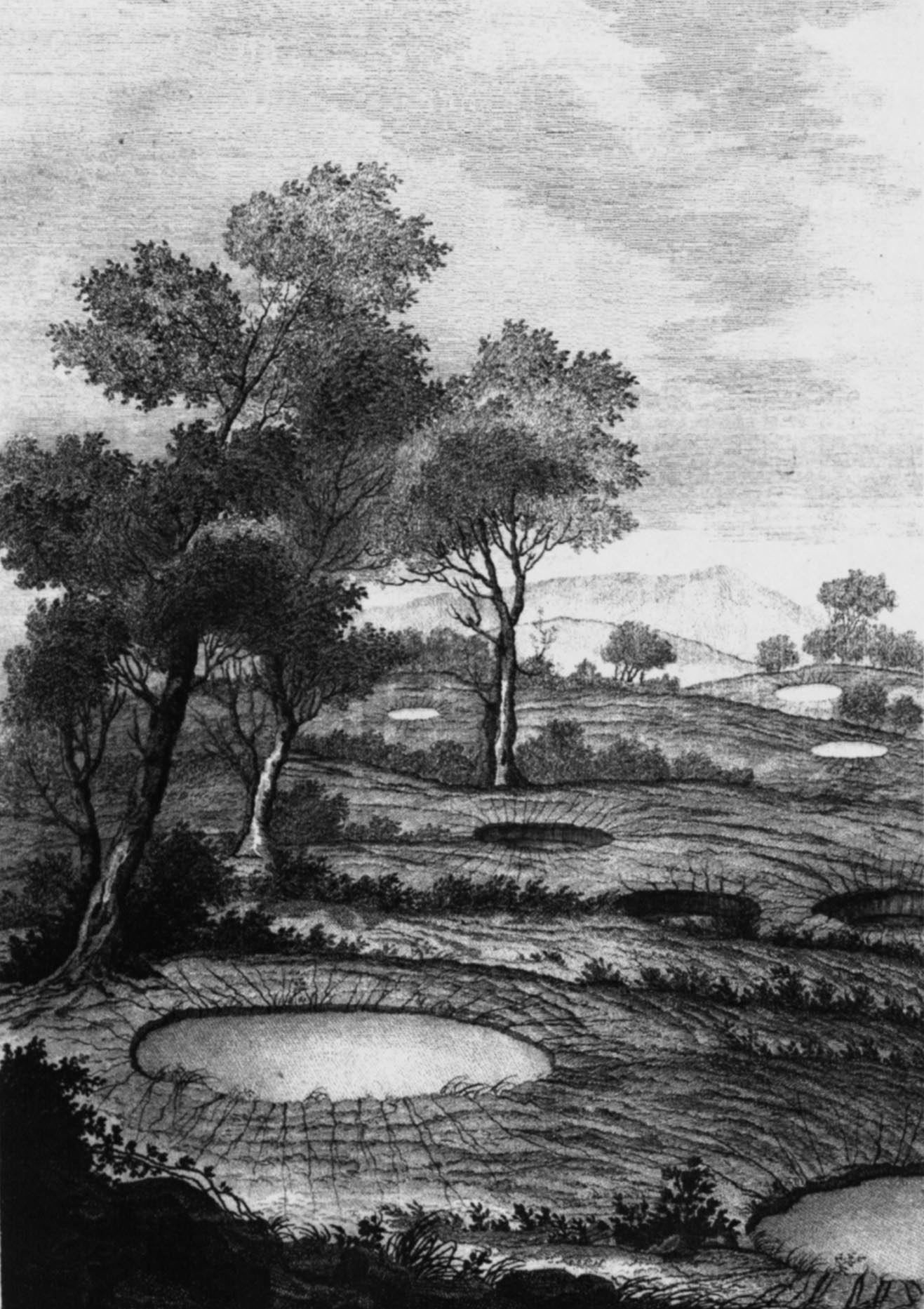 Circular settlement of sandy deposits in the Rosarno Plain (from an original etching in Sarconi, 1784) - 1783 Calabrian earthquake